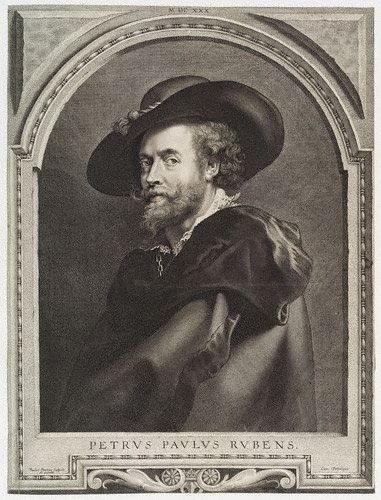 Sir Peter Paul Rubens, painter